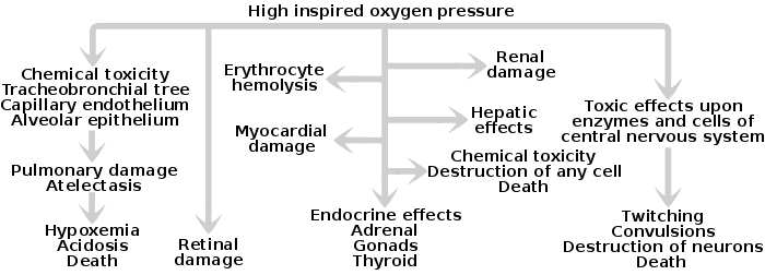 Diversity and progression of toxic effects produced by exposure to increased oxygen pressures.